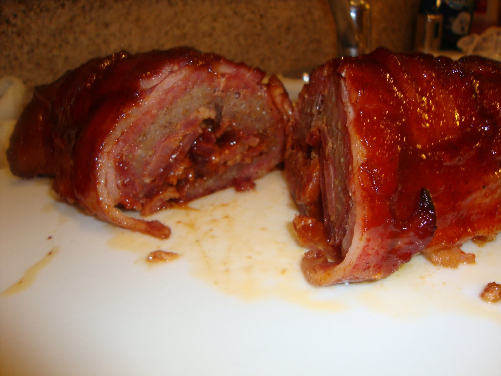 A completed Bacon Explosion, cut in half.